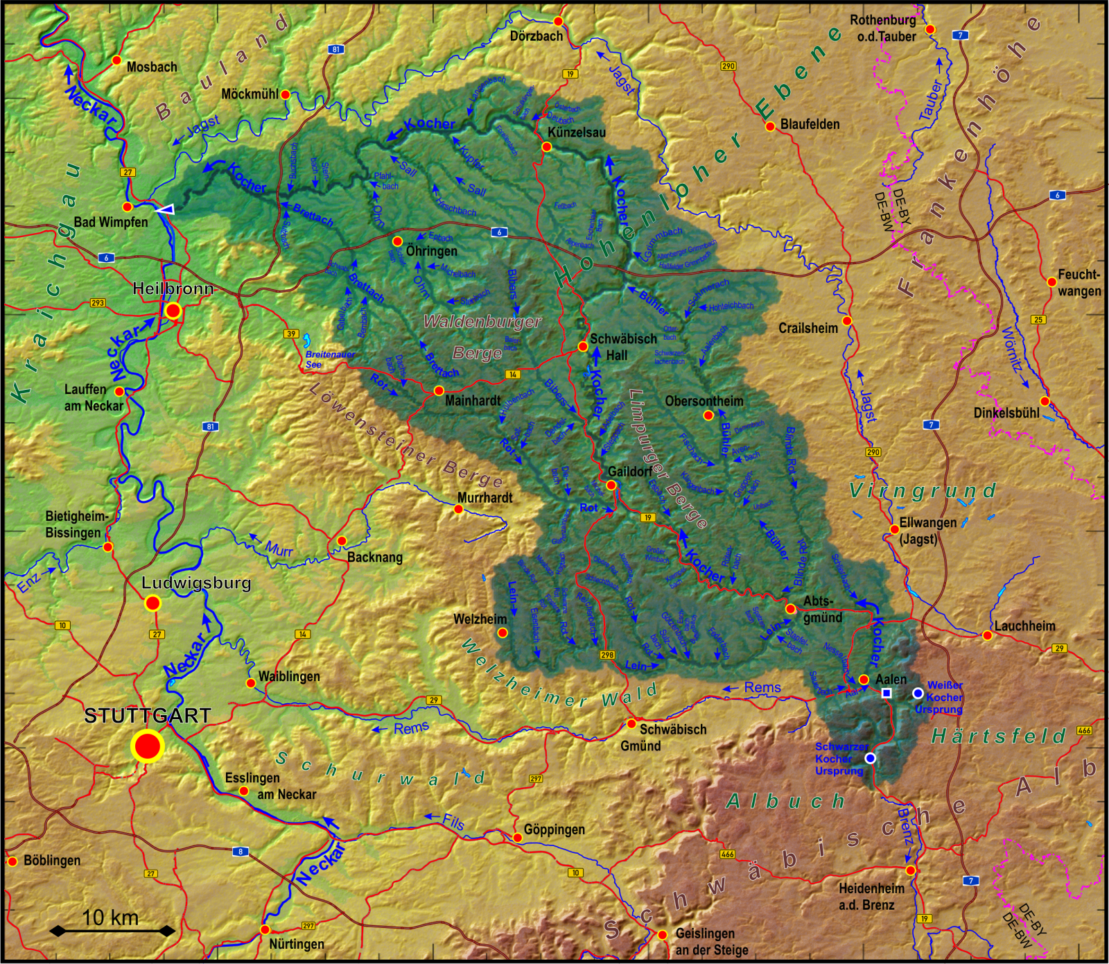 Catchment area of the river Kocher